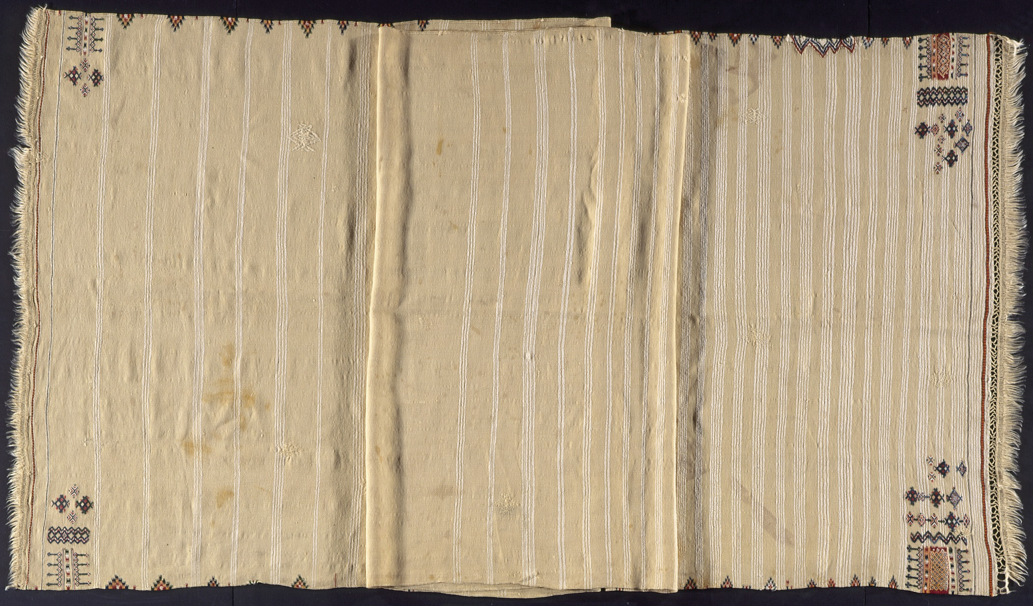 North Morocco, Atlas Mountains, Ait Talouine, Berber people, 19th century Costumes Wool, cotton, silk; weft-faced plain weave, tapestry-weave, embroidery, supplementary weft 42 1/2 x 125 in. (107.95 x 317.5 cm) Costume Council Fund (AC1994.193.1) Costume and Textiles